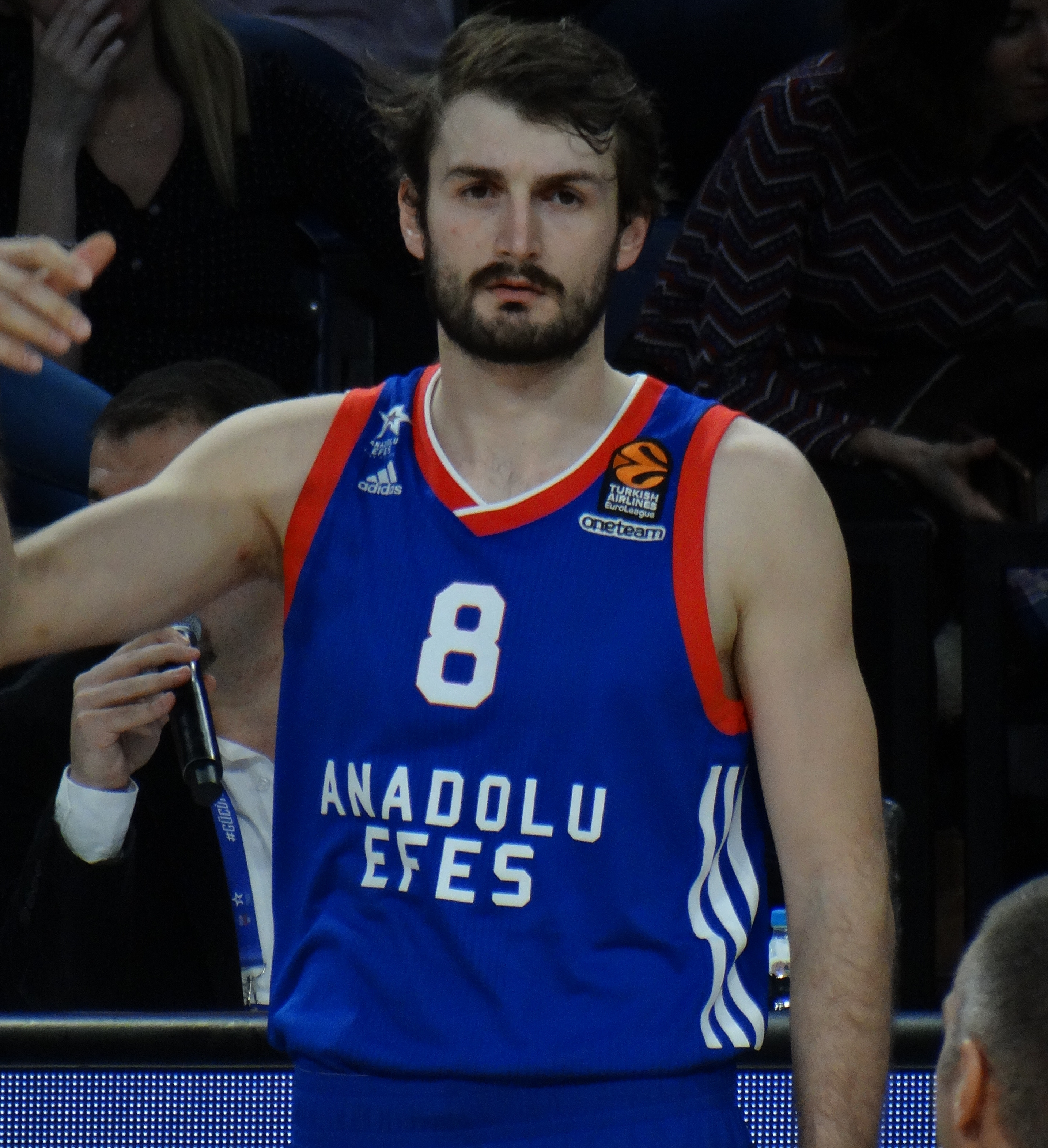 Birkan Batuk 8 - Anadolu Efes S.K. 20171215